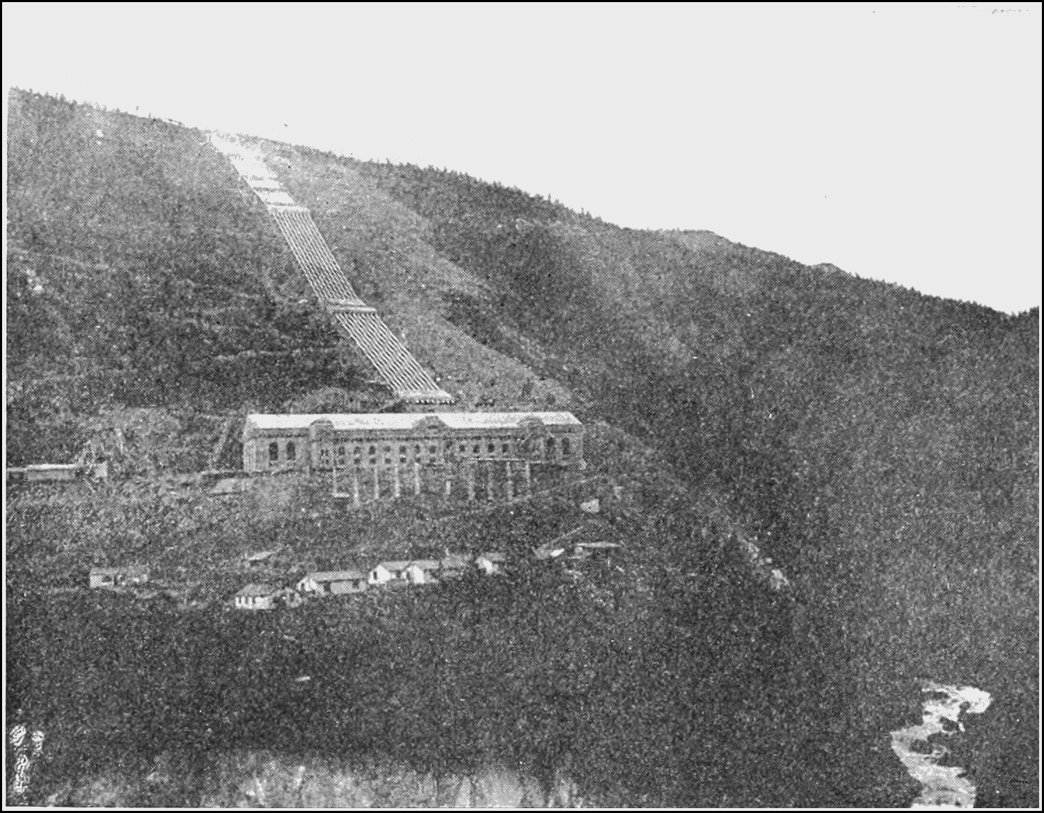 Rjukan fos upper power house